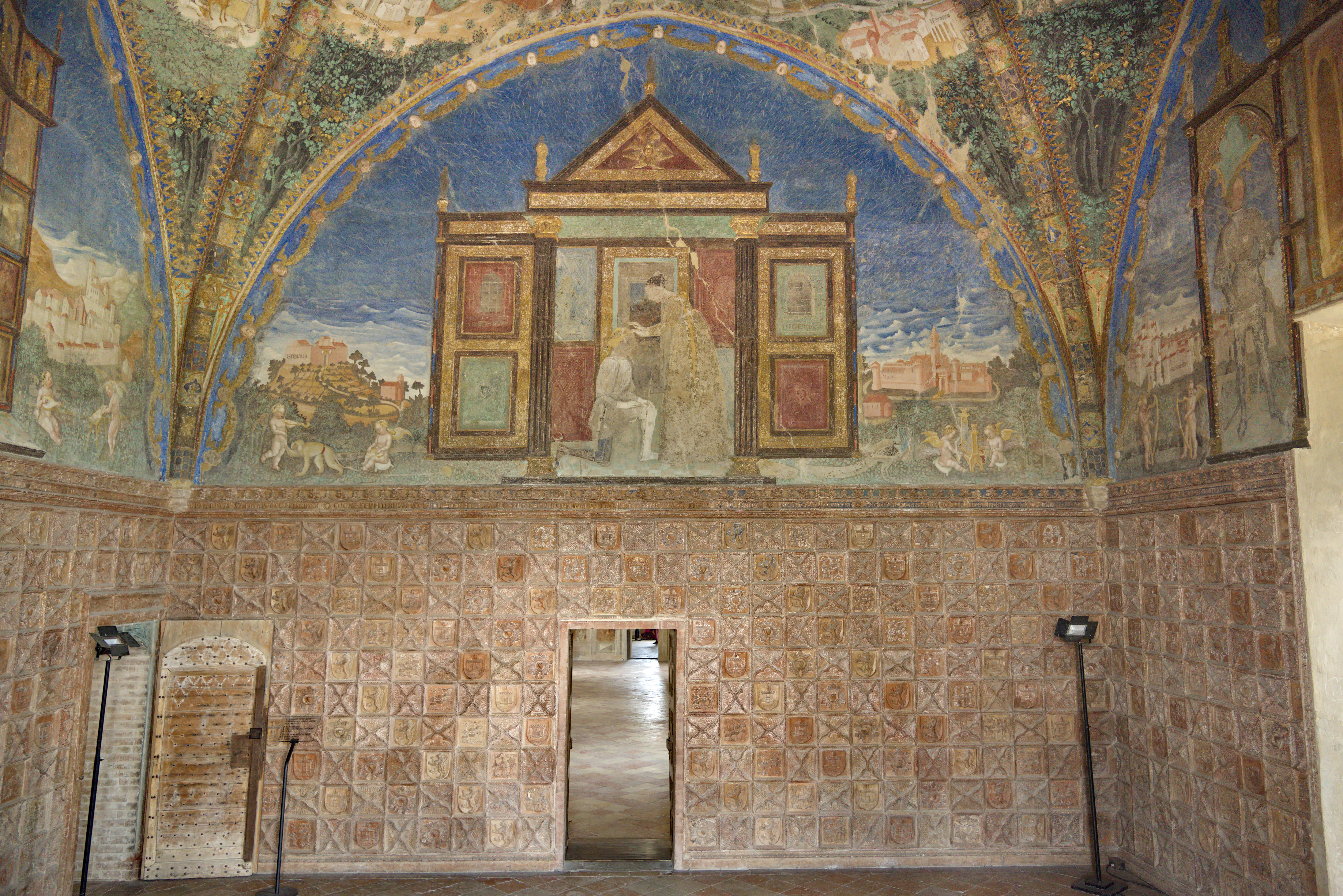 Province Parma, Langhirano, the Torrechiara Castle, XIV century, the Gold Room